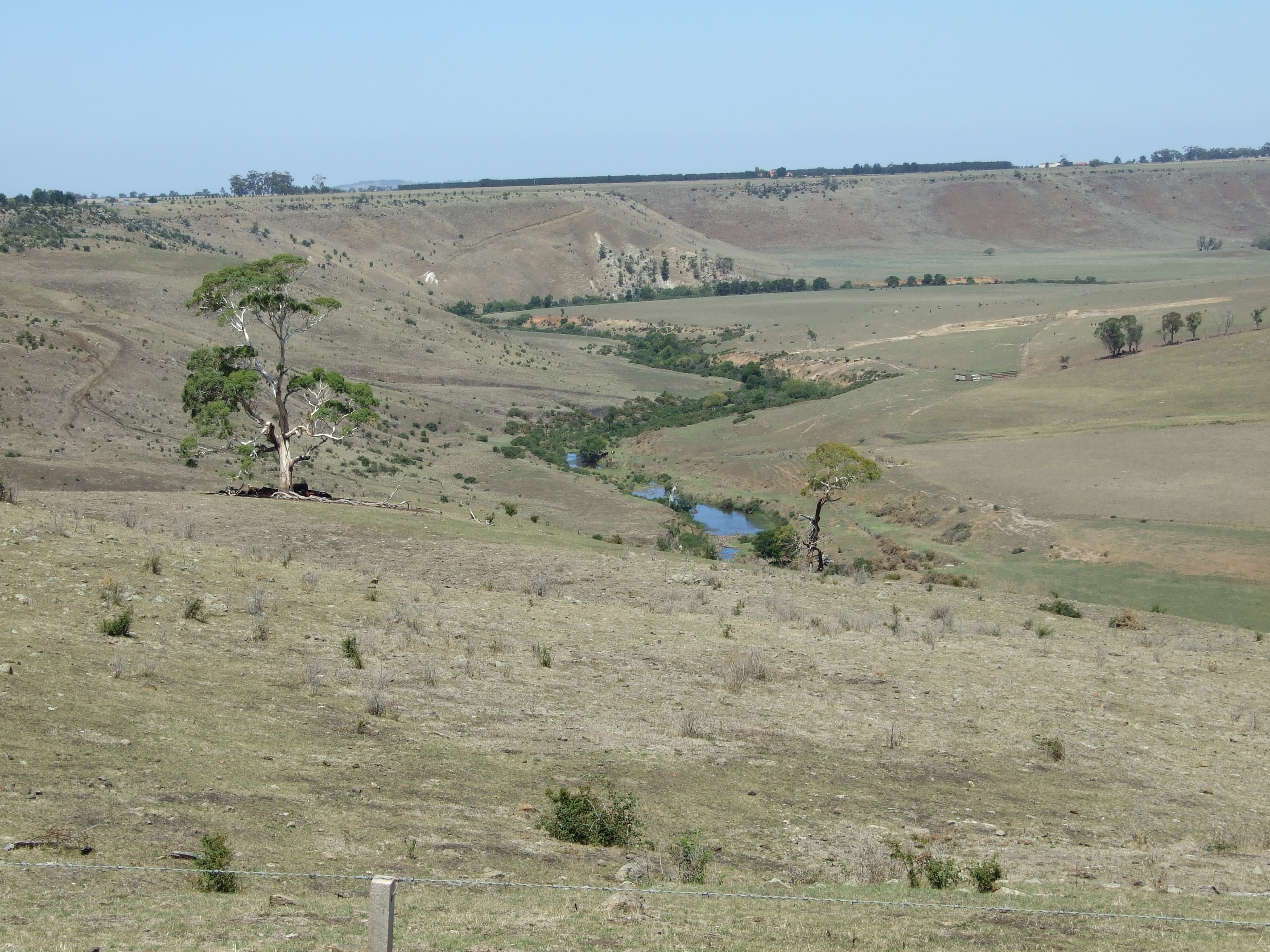 Jacksons Creek near Clarkefield